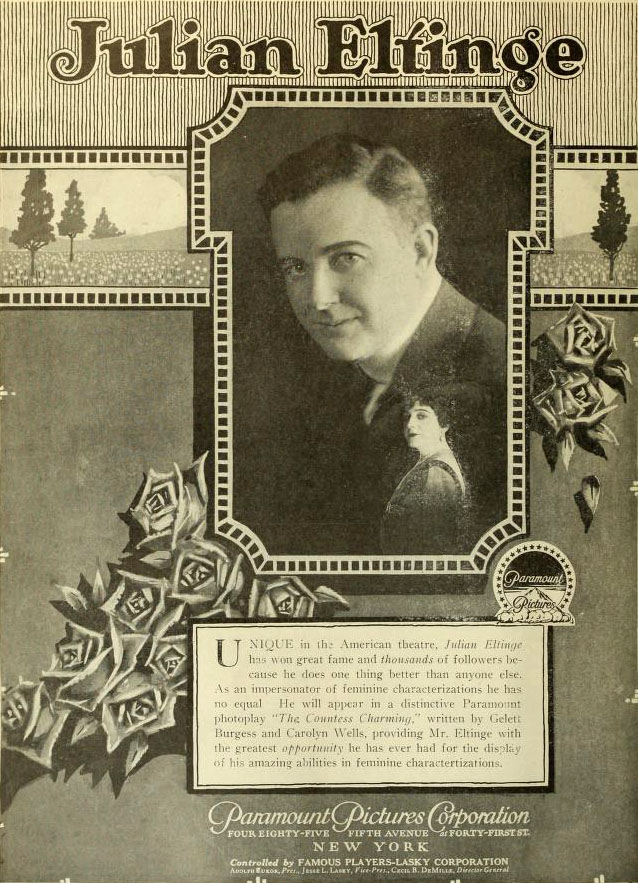 Advertisement in Moving Picture World, Aug 1917 with Julian Eltinge in the American film The Countess Charming (1917).